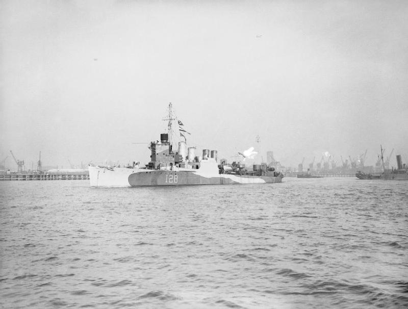 HMS Chesterfield (I28), 15 November 1942. Underway.